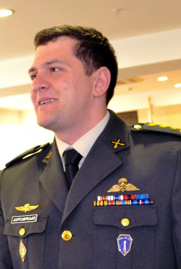 TBILISI, Georgia -- U.S. Army Europe commander Lt. Gen. Mark P. Hertling (left) greets Republic of Georgia Land Forces Commander Col. Giorgi "Gigi" Kalandadze at the Ministry of Defense here, June 22. Hertling and Kalandadze met to advance training collaboration between the two armies. Hertling visited during Shared Horizons 2011, an emergency civil response exercise involving troops from USAREUR, the Republic of Georgia, and the (U.S. state of) Georgia Army National Guard. The exercise took place June 20-24 at the Georgian National Guard Center here. (Photo by Capt. Audrey Gboney-Leon)